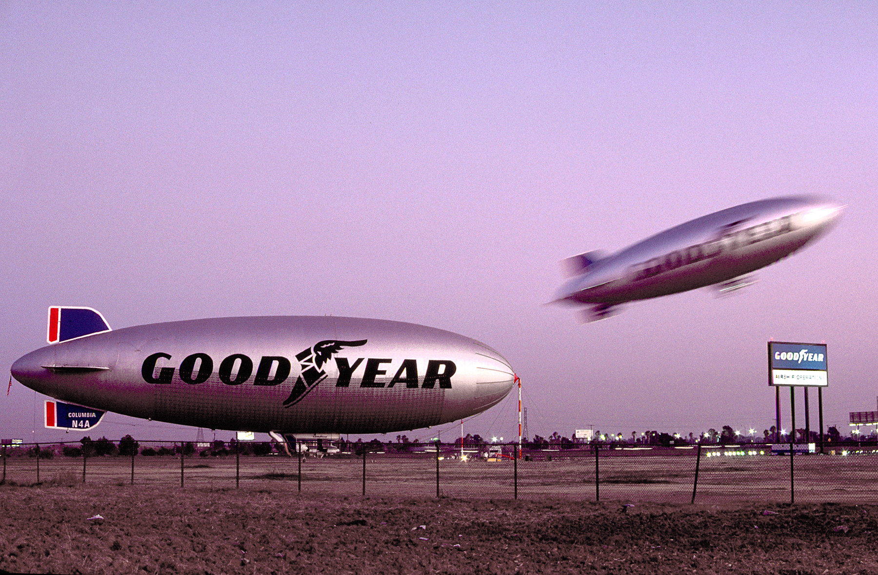 N4A Columbia (VI, VII) remains moored while N3A America is taking off. N3A, based at Houston, Texas, was at the Goodyear Airship Base assisting N4A in aerial coverage of the 1984 Los Angeles Summer Olympics.